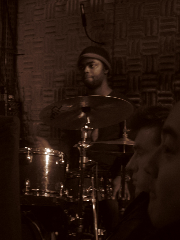 Marcus Gilmore, Vijay Iyer Trio @ Sunside (Paris, 13/02/2009)